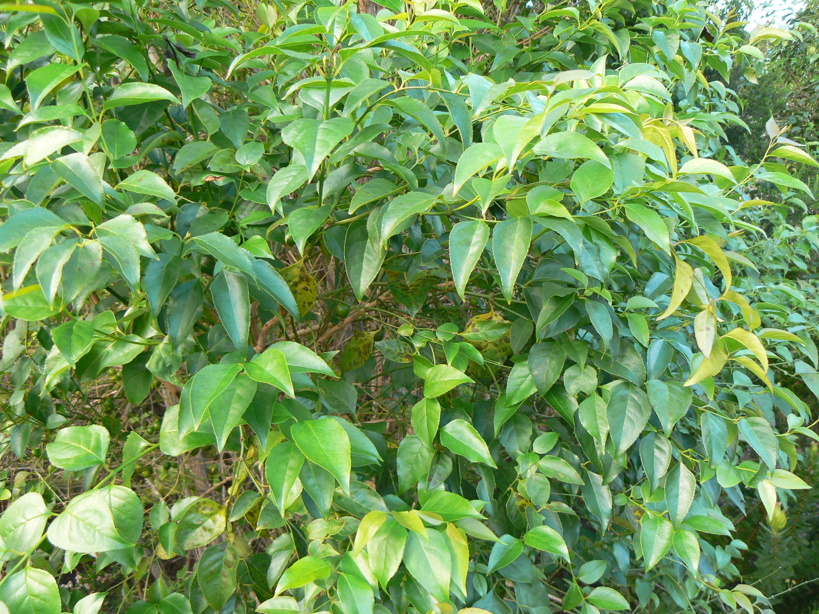 Halleria lucida - foliage